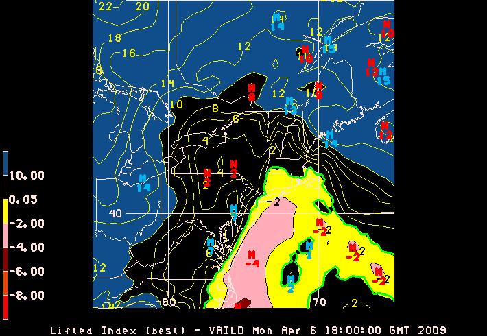 This is a computer forecast of the stability of the atmosphere for April 6th, 2009, at 1 PM EST. There is a greater potential for thunderstorms or heavy showers when it is unstable and sufficient moisture is available. Areas that are unstable are shown in shades of yellow and red. Yellow areas are marginally unstable. The brighest red areas are very unstable. Blue areas are very stable.